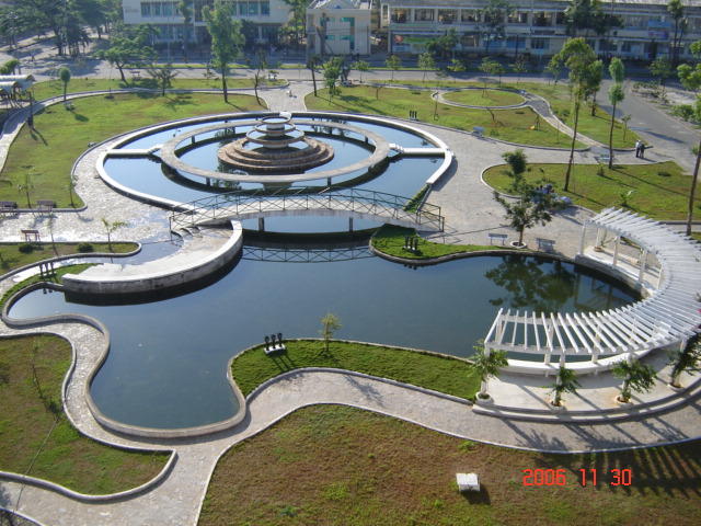 Da Nang University of Technology